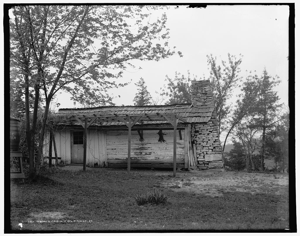 A cabin on one of Daniel Boone's tracts in Jessamine County, Kentucky, near High Bridge; see more at